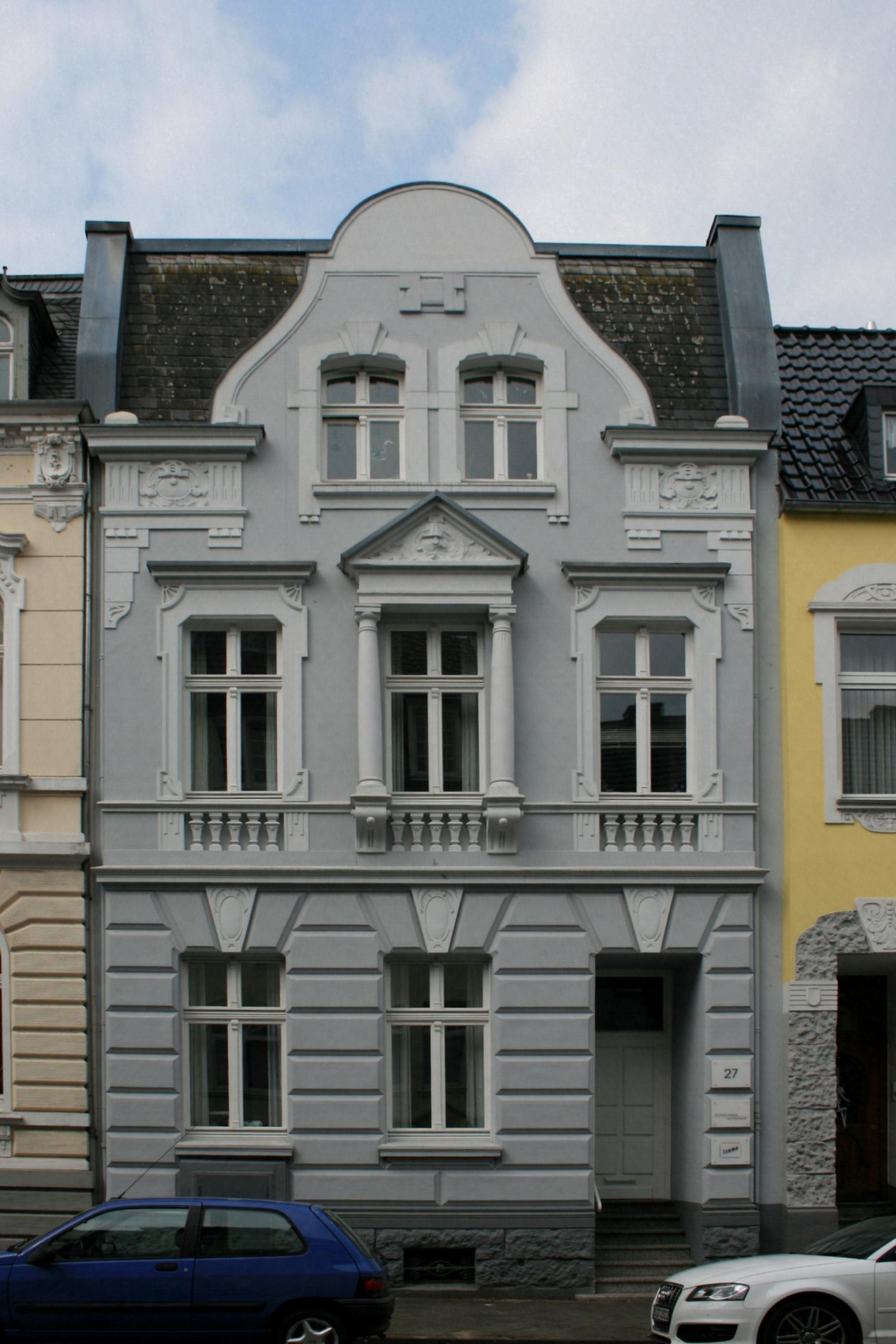 Cultural heritage monument No. H 066 in Mönchengladbach